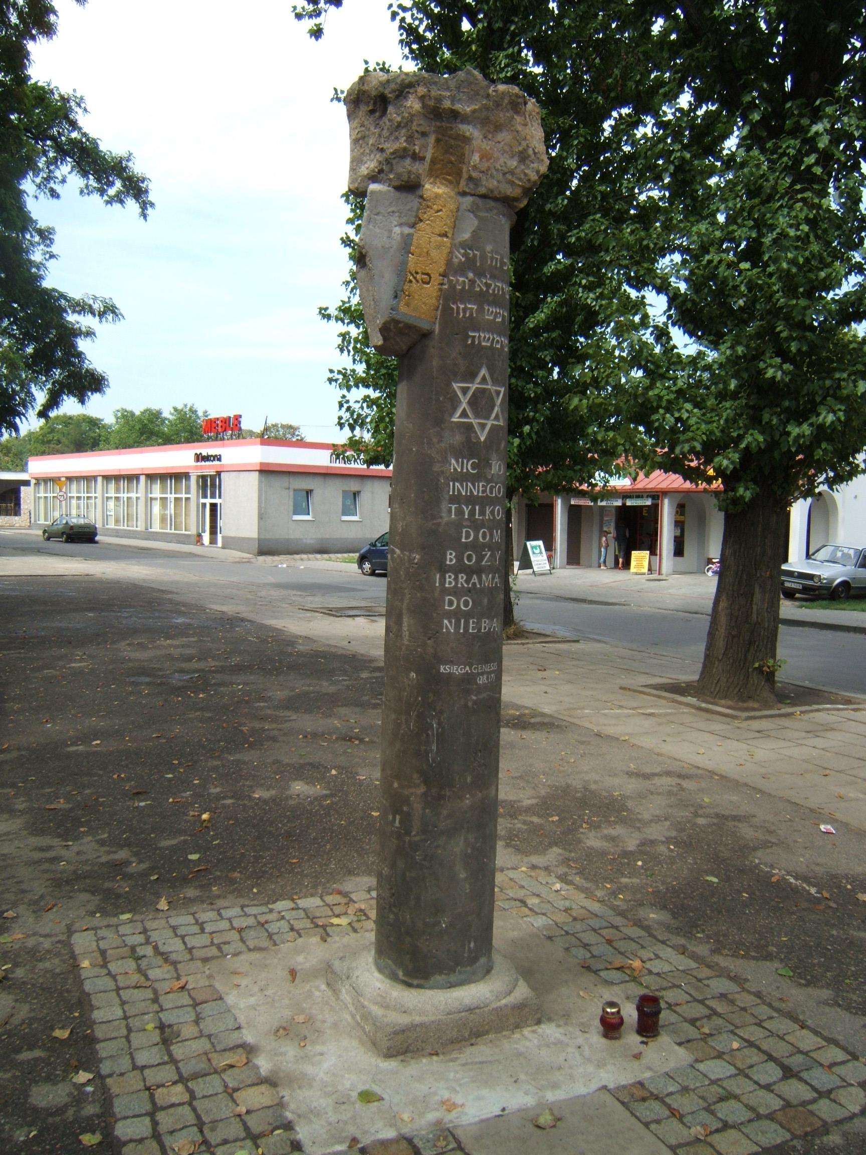 Monument in a place of synagogue in Tarnowskie Góry